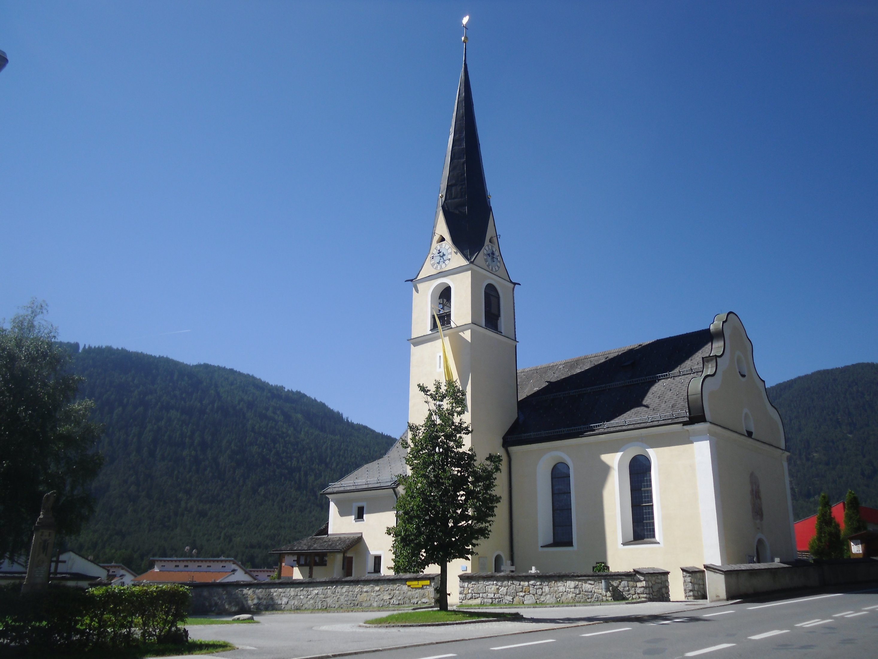 Kath. Pfarrkirche hl. Josef und Friedhof in Unterstrass